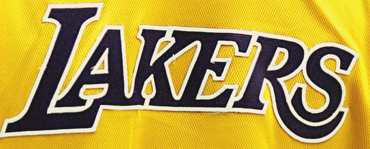 Kobe Bryant, Lakers shooting guard, stands ready to shoot a free throw during Tuesday nights pre-season game against the Golden State Warriors. Bryant was essential in bringing together a large point gap late in the second quarter, after the Warriors took the early lead.